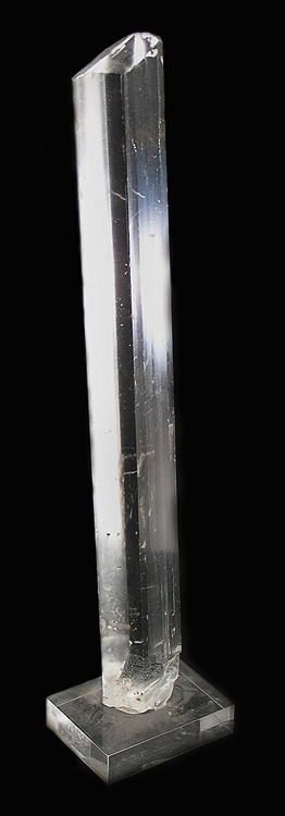 Gypsum (Var.: Selenite) Locality: Naica, Municipio de Saucillo, Chihuahua, Mexico (Locality at ) A tall, gemmy, spectacular crystal of selenite from Naica! It is just GLASS-CLEAR, with VERY minor wear compared to what you normally see on these super-soft specimens (2 on the Mohs scale). Fabulous termination and sharp faces; non-mineral collectors can hardly believe these grow naturally. 22.6 x 2.6 x 1.6cm